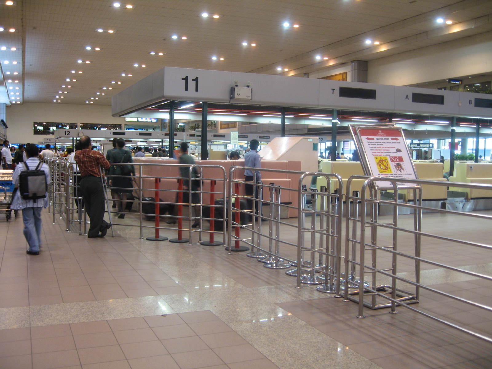 Bangkok (Don Mueang) International Airport, Terminal 2, Departure Hall.